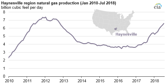 In June 2018, natural gas production in the Haynesville shale formation, located in northeastern Texas and Louisiana, averaged 6.4 billion cubic feet per day (Bcf/d), accounting for 8.5% of total U.S. dry natural gas production and the highest production from this region since September 2012. September 7, 2018